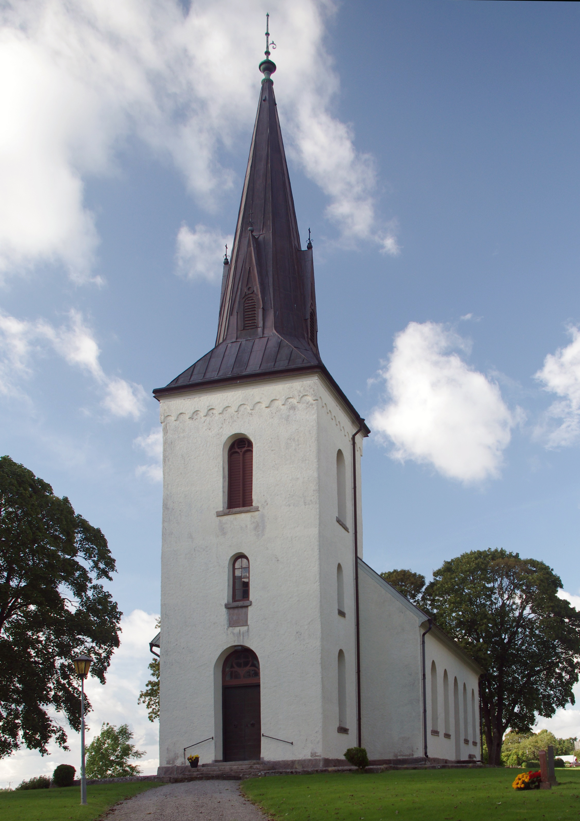 Humla church in Ulricehamn muicipality in Västergötland and Västragötaland county, Sweden.